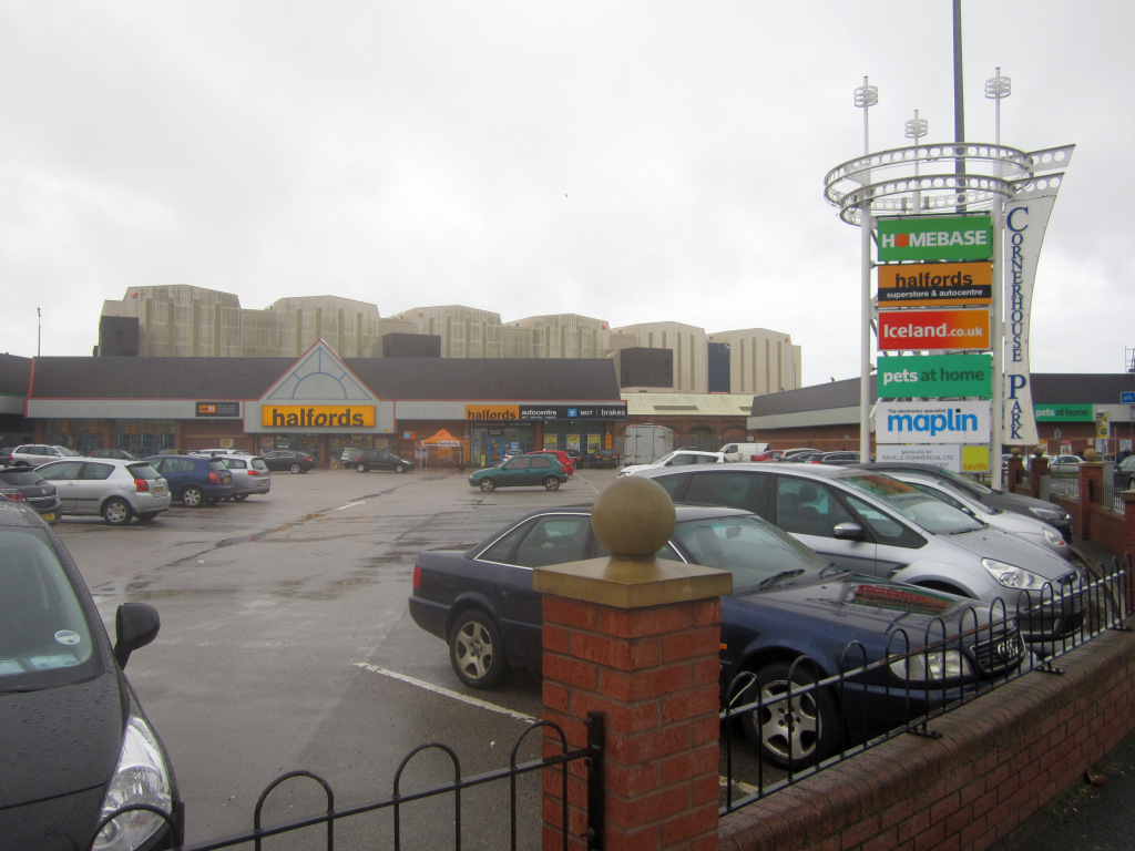 Cornerhouse Retail Park, Barrow-in-Furness, England